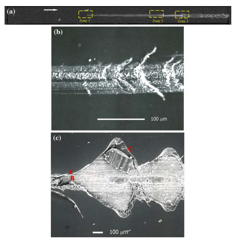 Increasing-load scratch test: SEM images of the scratch morphology in order to evaluate the critical loads for coating cohesive and adhesive failure